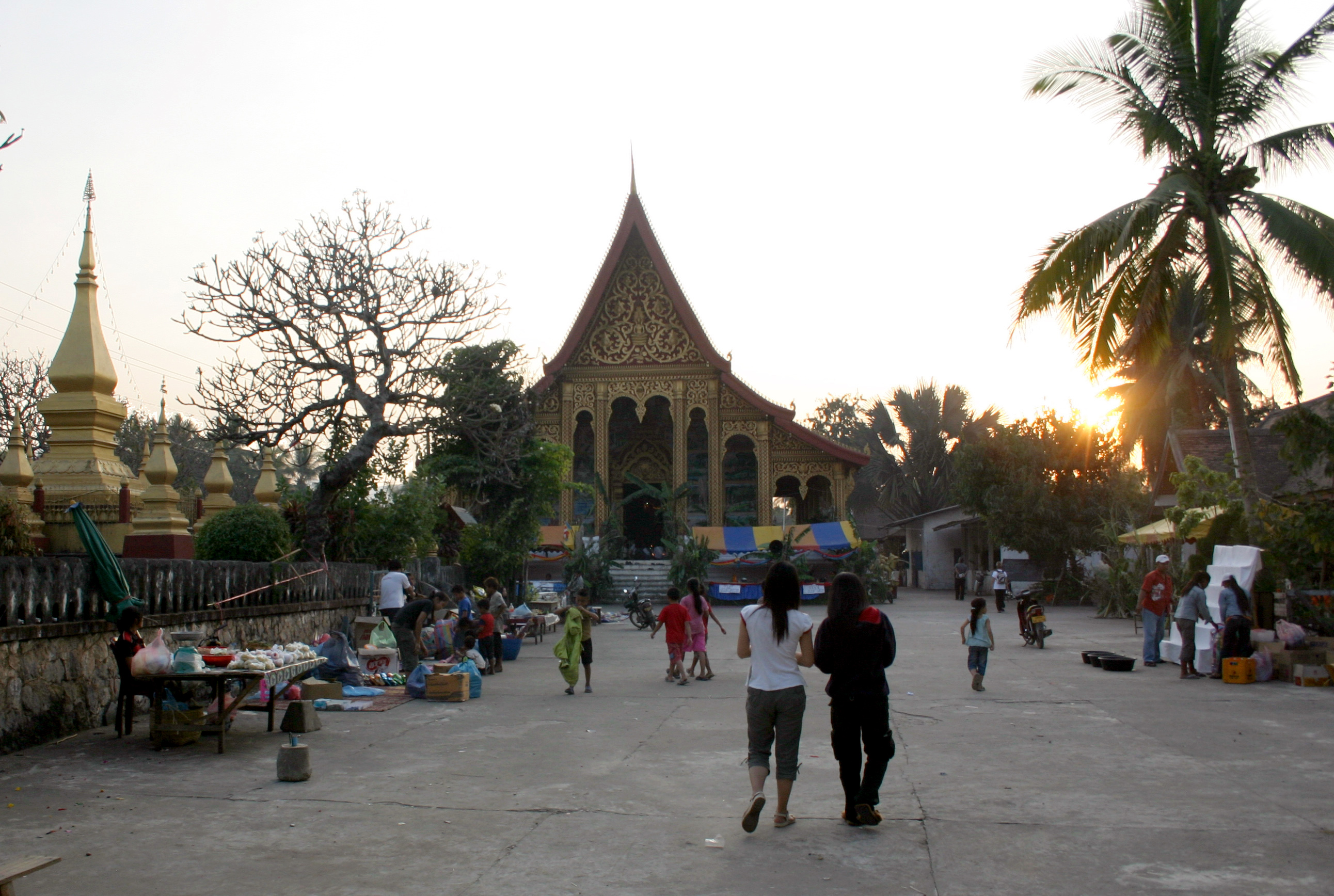 Wat Manorom in Luang Prabang in Laos